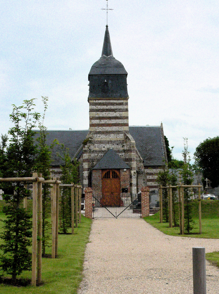 Church Saint-Amand, in the town of Ancretteville-sur-Mer, Normandy, France